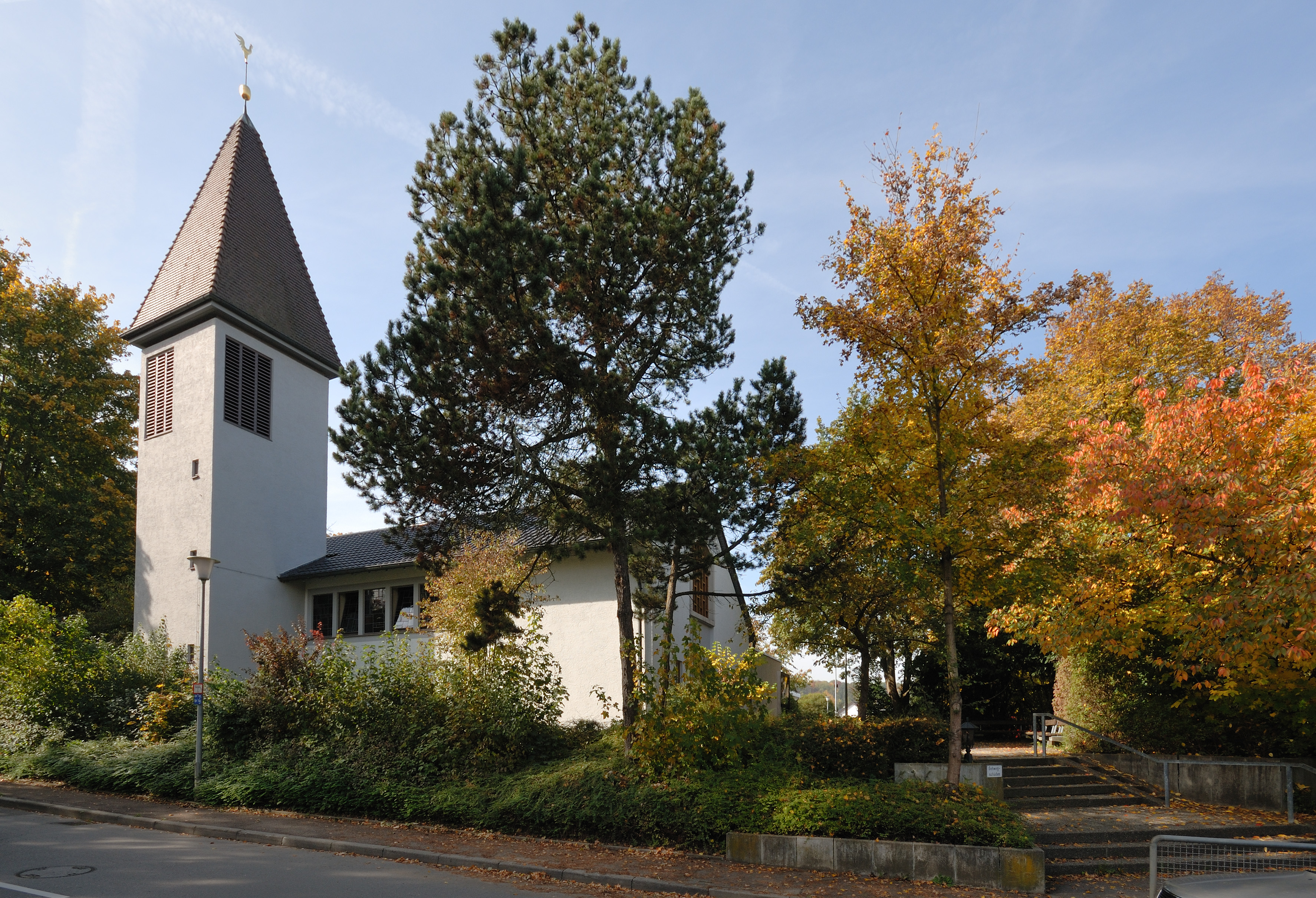 Matthew church in Kirchheim-Lindorf built in 1961.